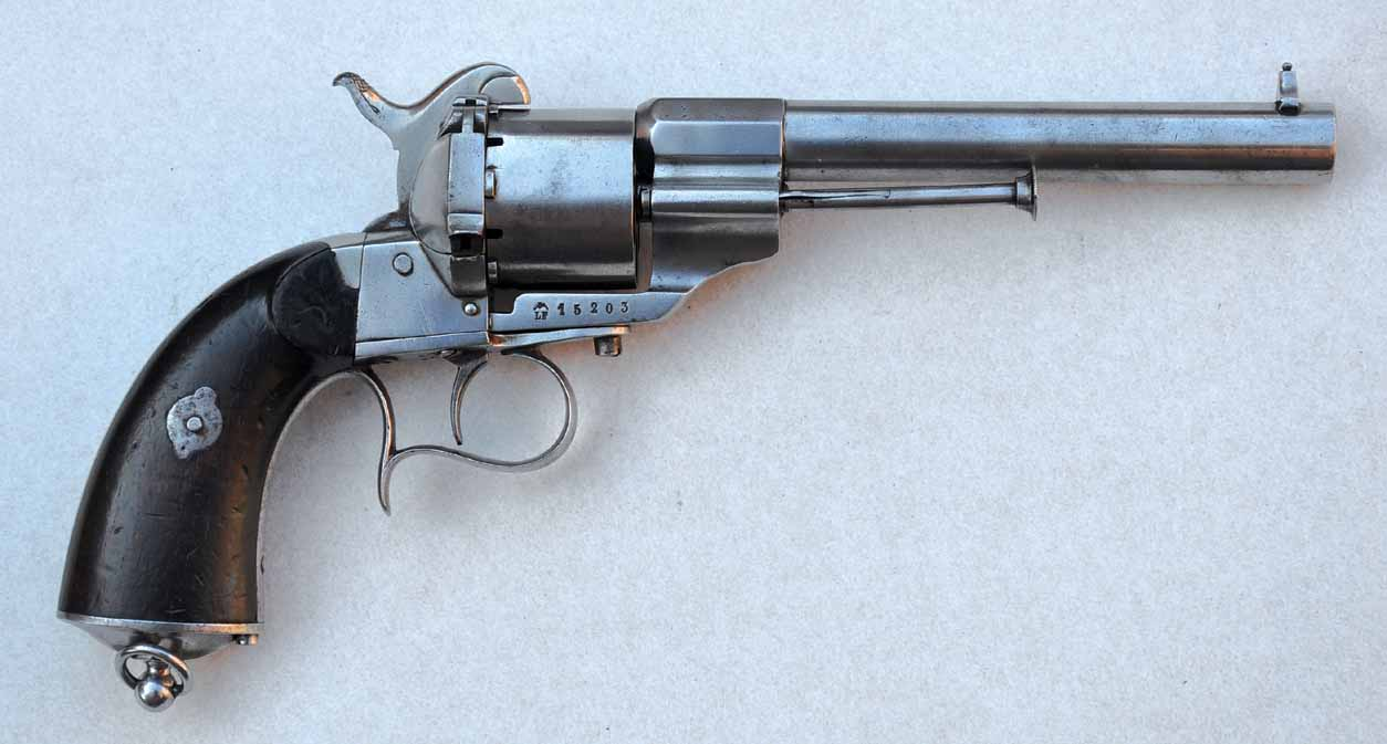 Norsk Lefaucheux revolver M/1859 for Marinen